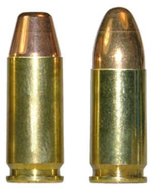 9X21mm (left) and 9X19mm Parabellum (right) cartridges. Brass cases, jacketed bullets.